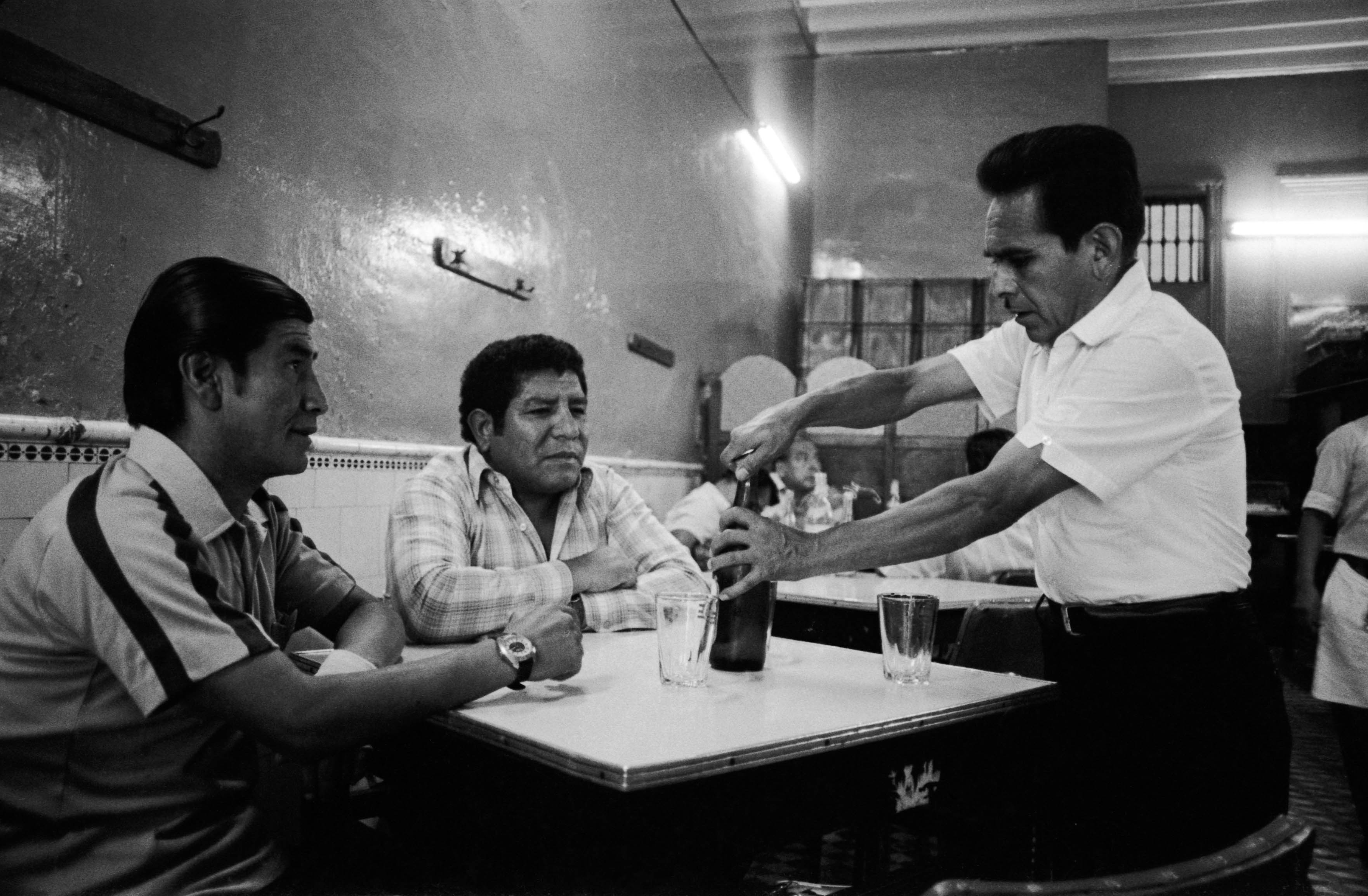 El escritor Gregorio Martínez (derecha) y el poeta Cesáreo 'Chacho' Martínez.